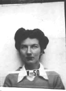 Marjorie Bradner Los Alamos wartime security badge.